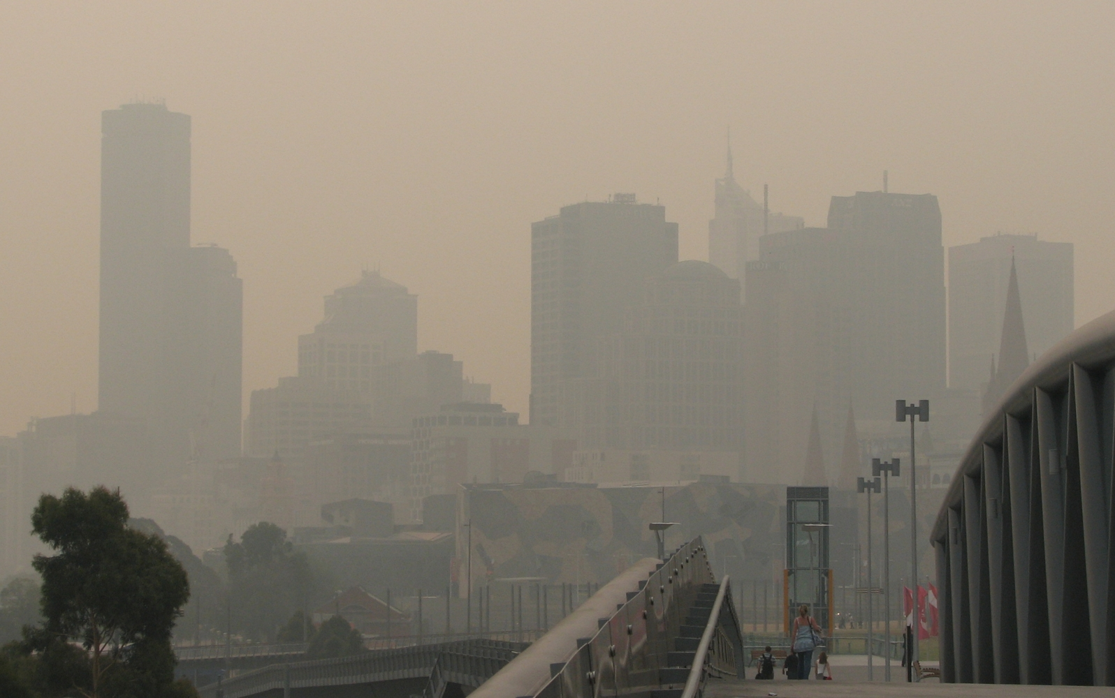 Description: Melbourne city skyline (from the William Barak bridge) enveloped in smoke from large bushfires in Gippsland and the north-east of Victoria Date: December 13, 2006 Photograph by Melburnian